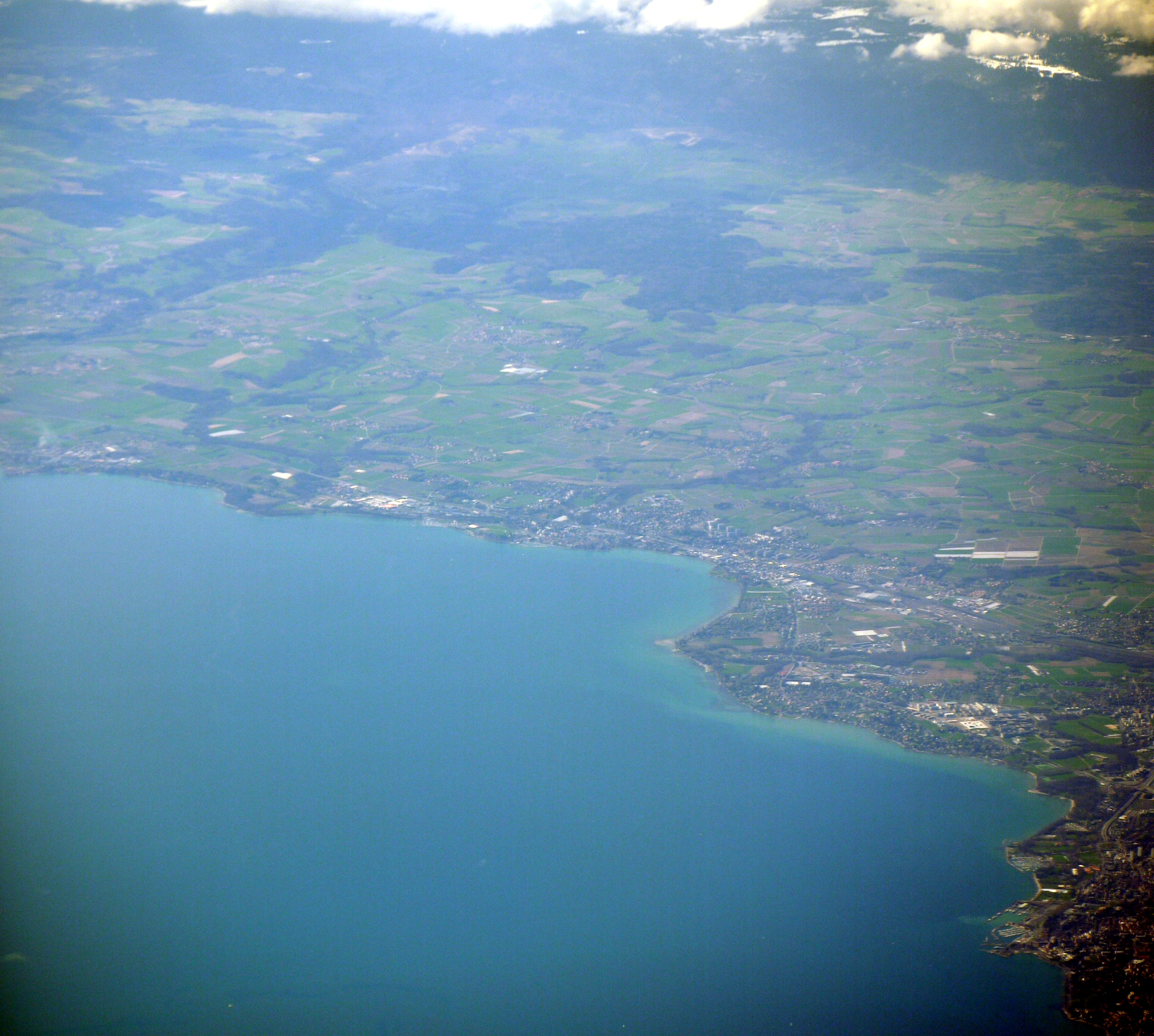 Morges, photograph taken from the sky, on the fly line between Marseille and Stockholm.